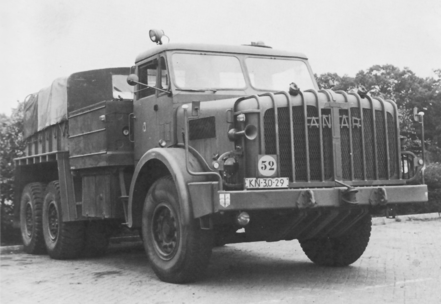 Thornycroft Mighty Antar Heavy transport tractor in use by Dutch Army.